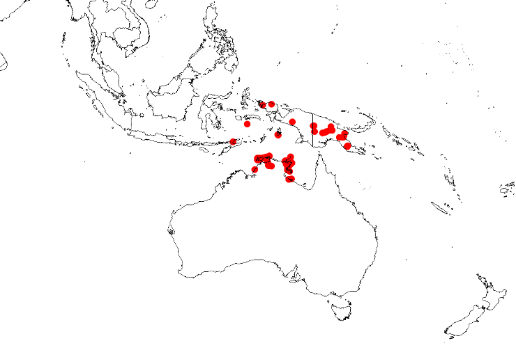 Decaisnina triflora Occurrence data from AVH downloaded 24 February 2019 using